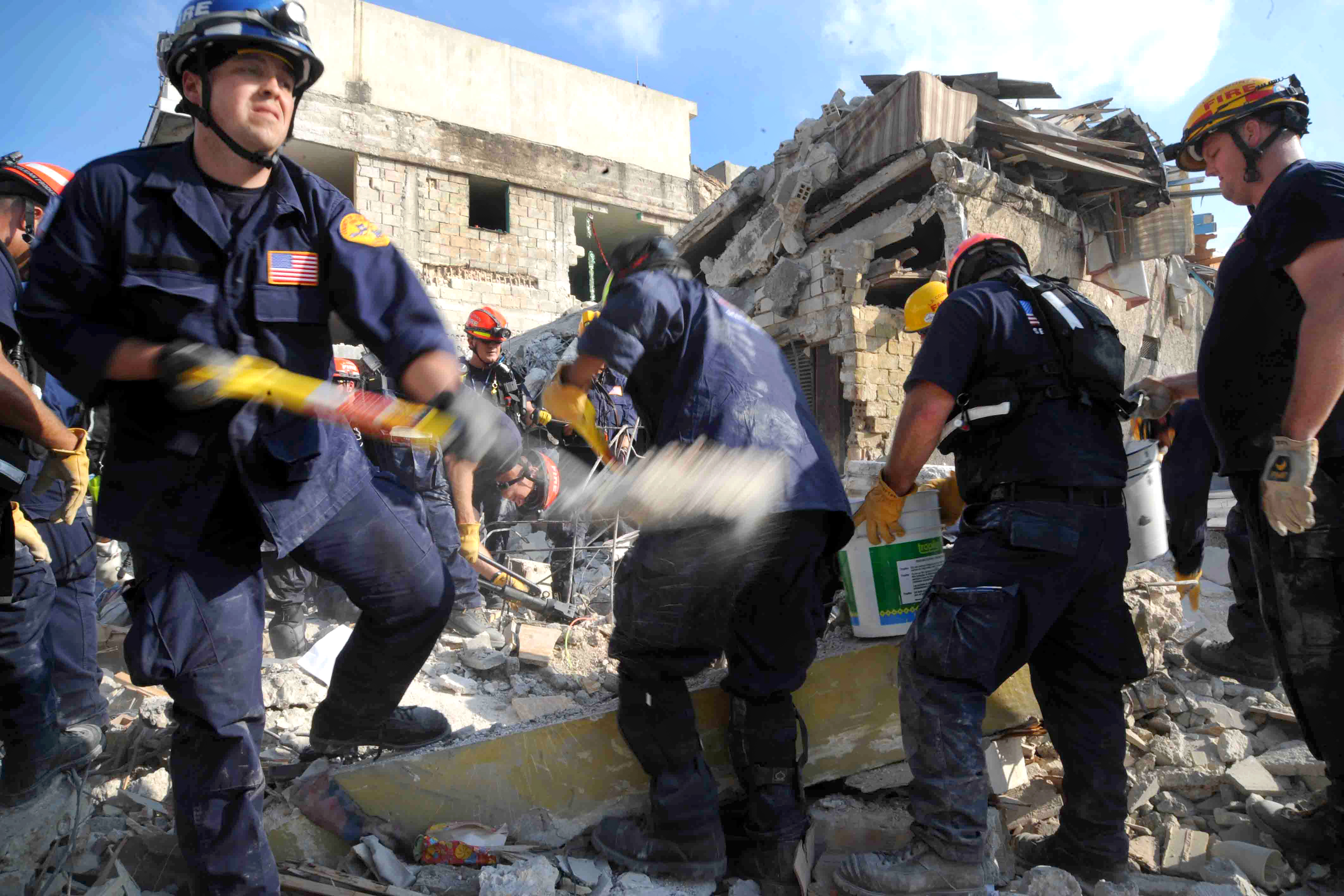 A member of the Los Angeles County Fire Department Search and Rescue team shovels dirt away from a collapsed building in downtown Port-au-Prince, Haiti, Jan. 17, 2010. VIRIN: 100117-n-6070s-002a